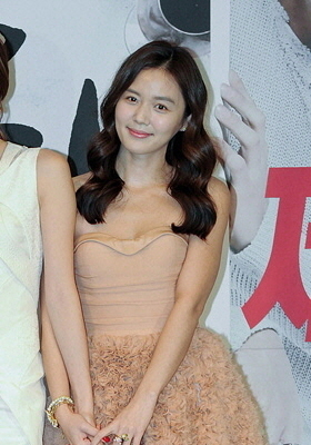 Ko Na-eun in January 2012